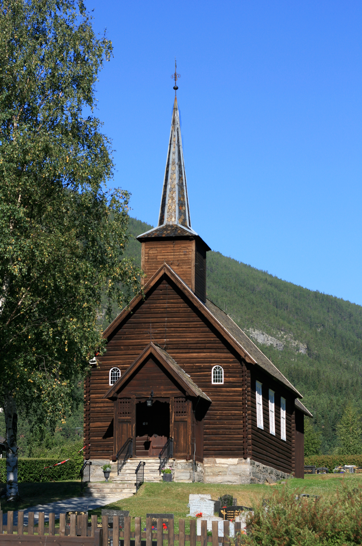 Nord-Sel church, Sel, Norway.